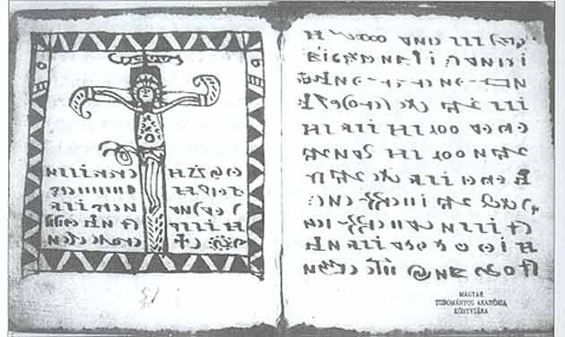 page 51 of Rohonc Codex